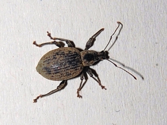 Otiorhynchus sp.